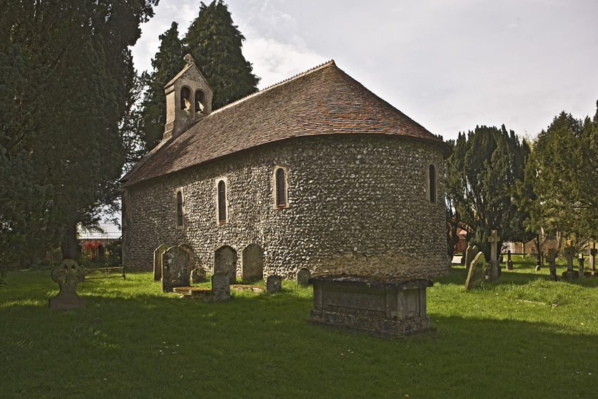 Church of England parish church of St Swithun, Nately Scures Hampshire, viewed from the southeast